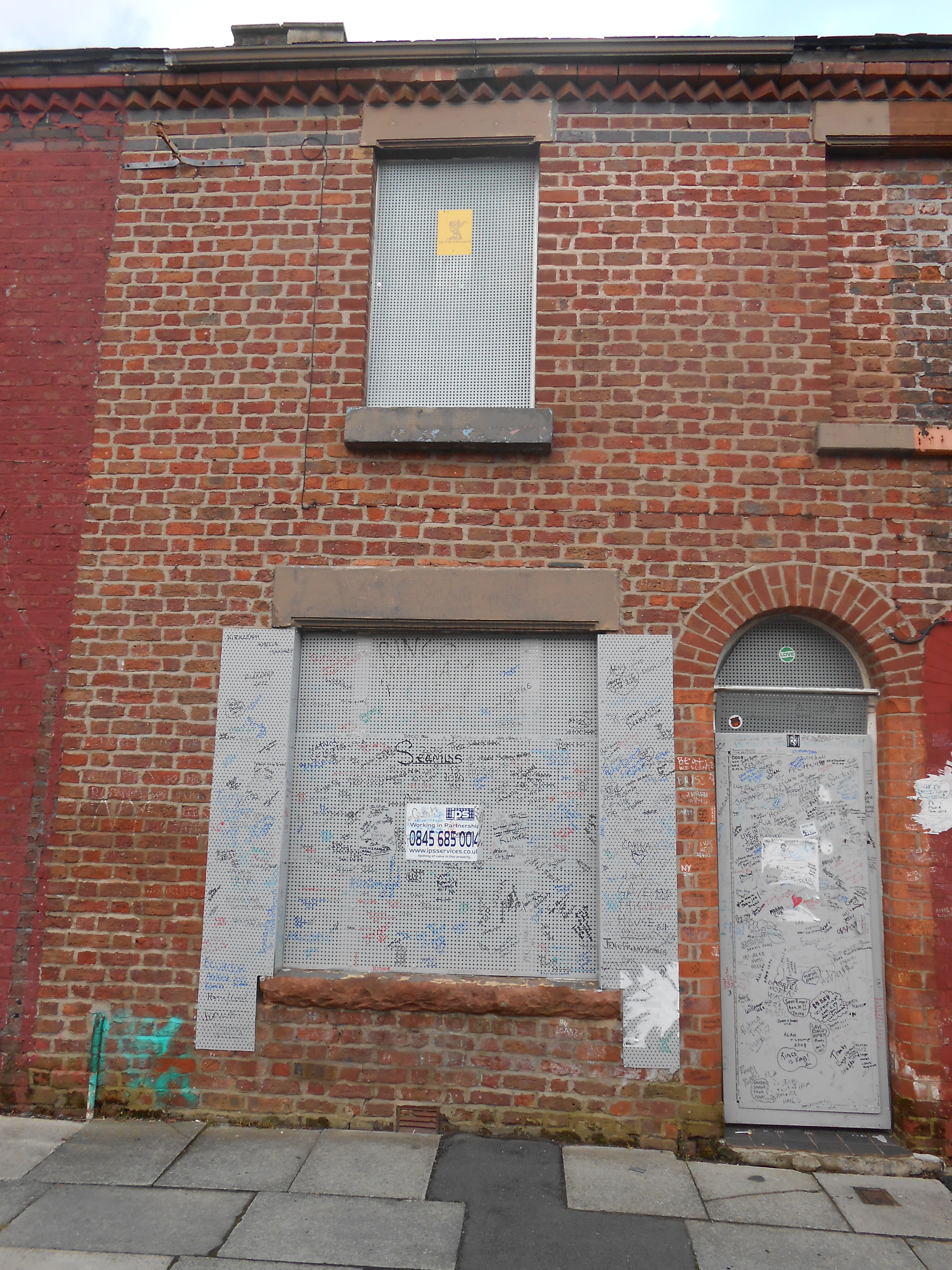 Photo taken at 9 Madryn Street, Liverpool, England. The birthplace of Ringo Starr.